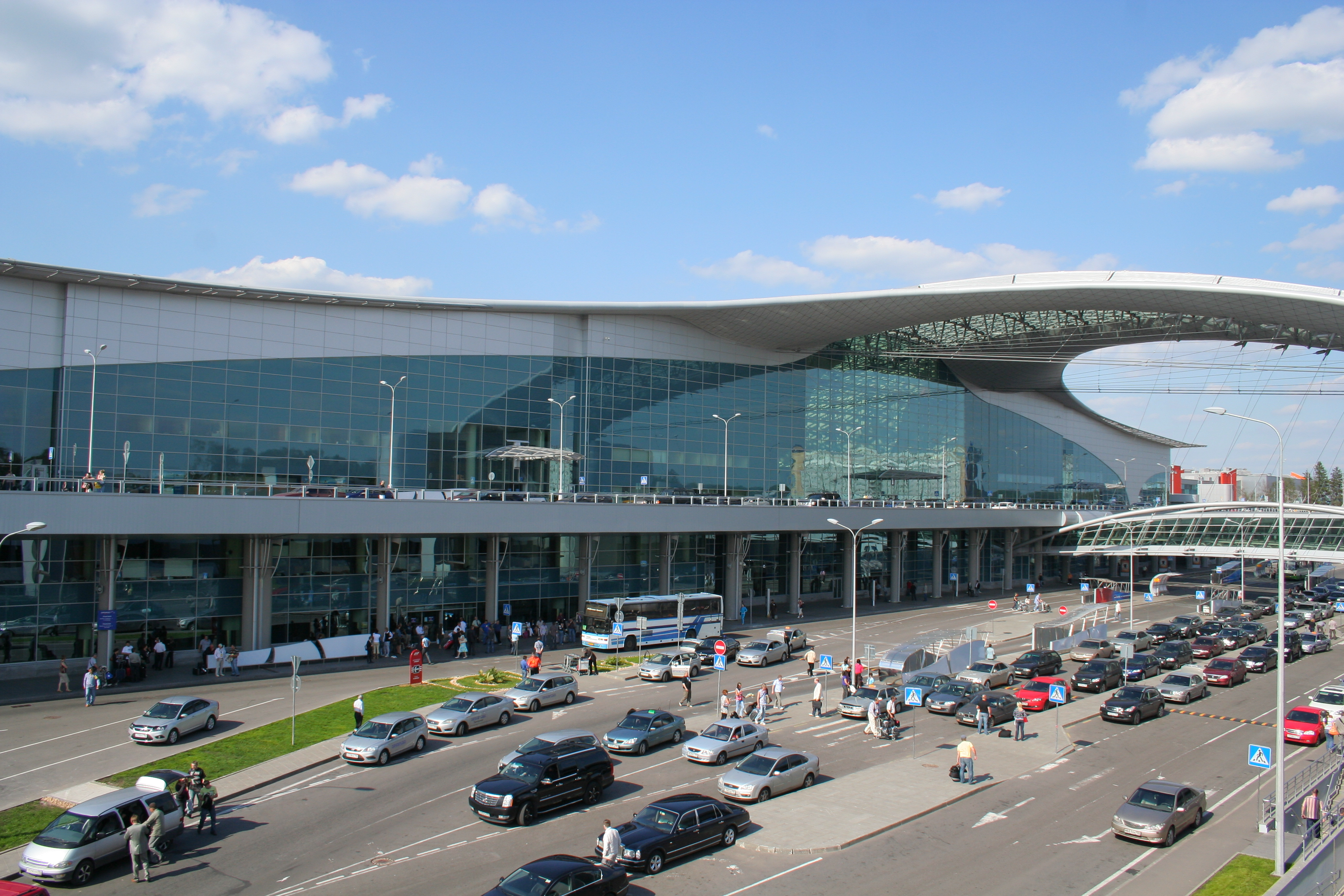 Sheremetyevo Airport of Moscow. Terminal D. View outside.